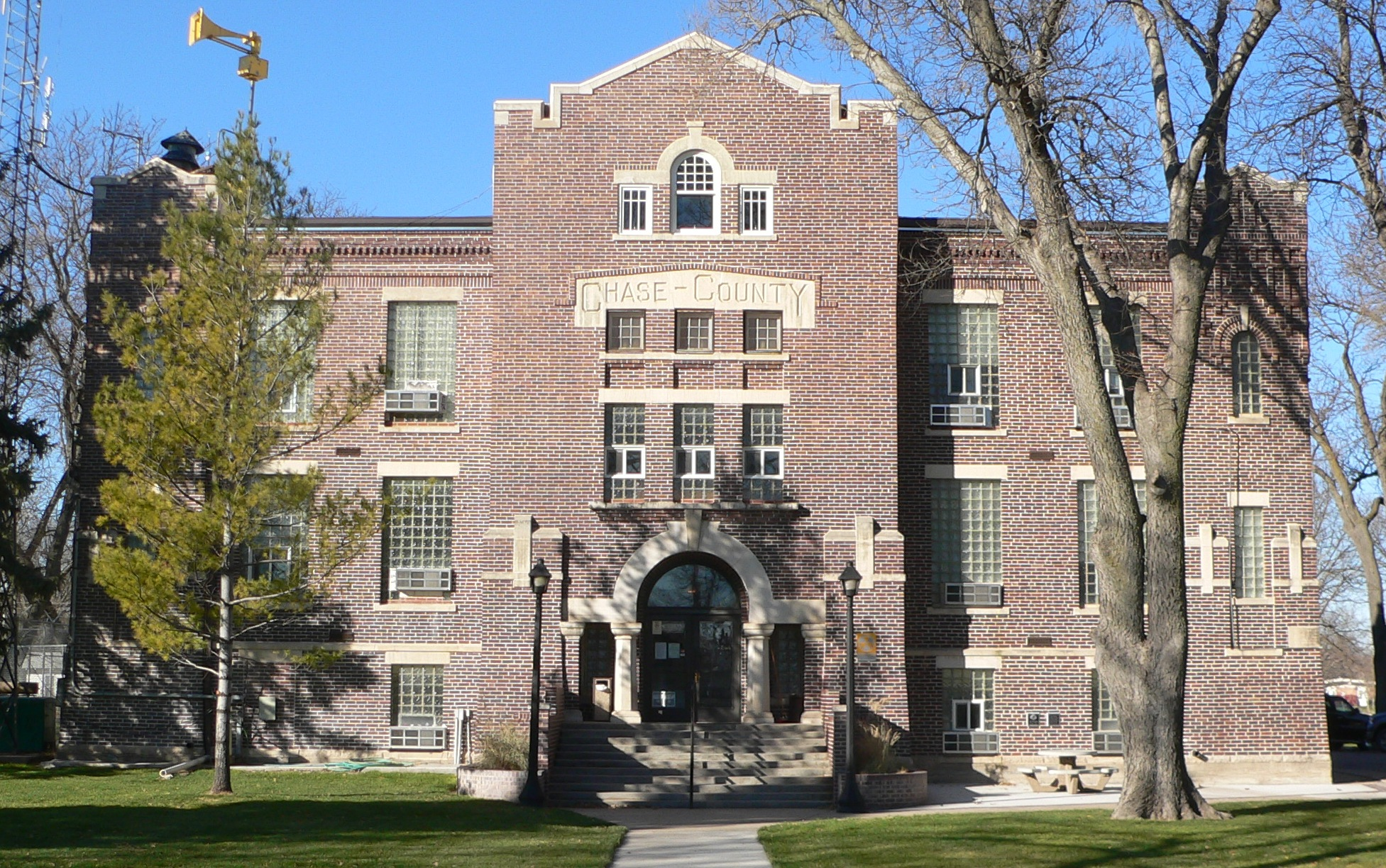 Chase County Courthouse in Imperial, Nebraska; seen from the east.